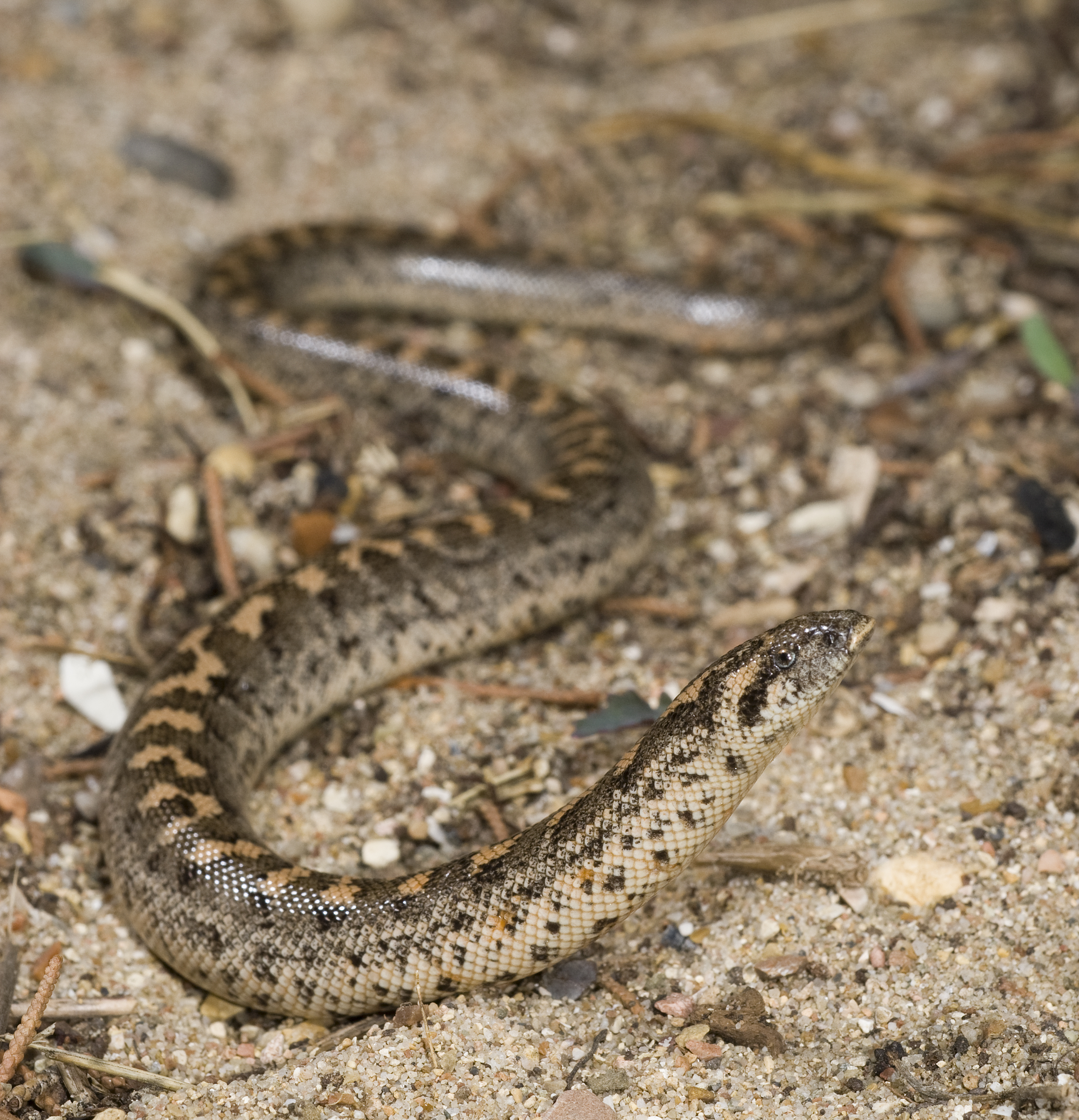 Eryx jaculus from Pylos (Peloponnese/Greece)